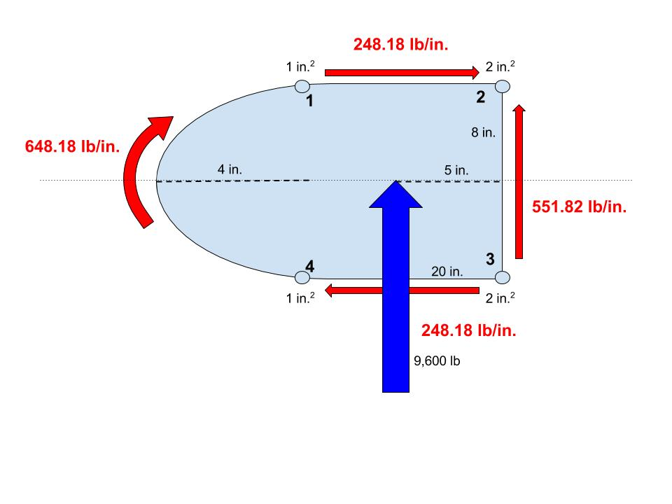 Simple skin stringer model with resultant shear flow due to applied transverse shear force shown